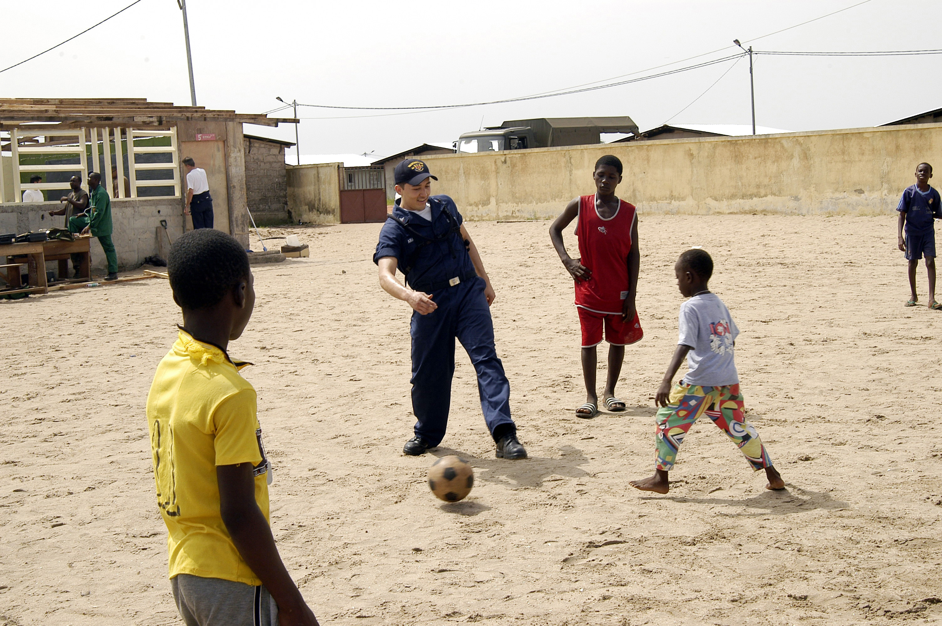 Port Gentil, Gabon (March 15, 2006) - Culinary Specialist 3rd Class Adalberto R. Araiza, stationed aboard the submarine tender USS Emory S. Land (AS 39), takes a break from repairing Gabonese school houses at Port Gentil, to play with the school children during recess. U.S. Navy photo by Photographer's Mate Airman Samantha Stark (RELEASED)